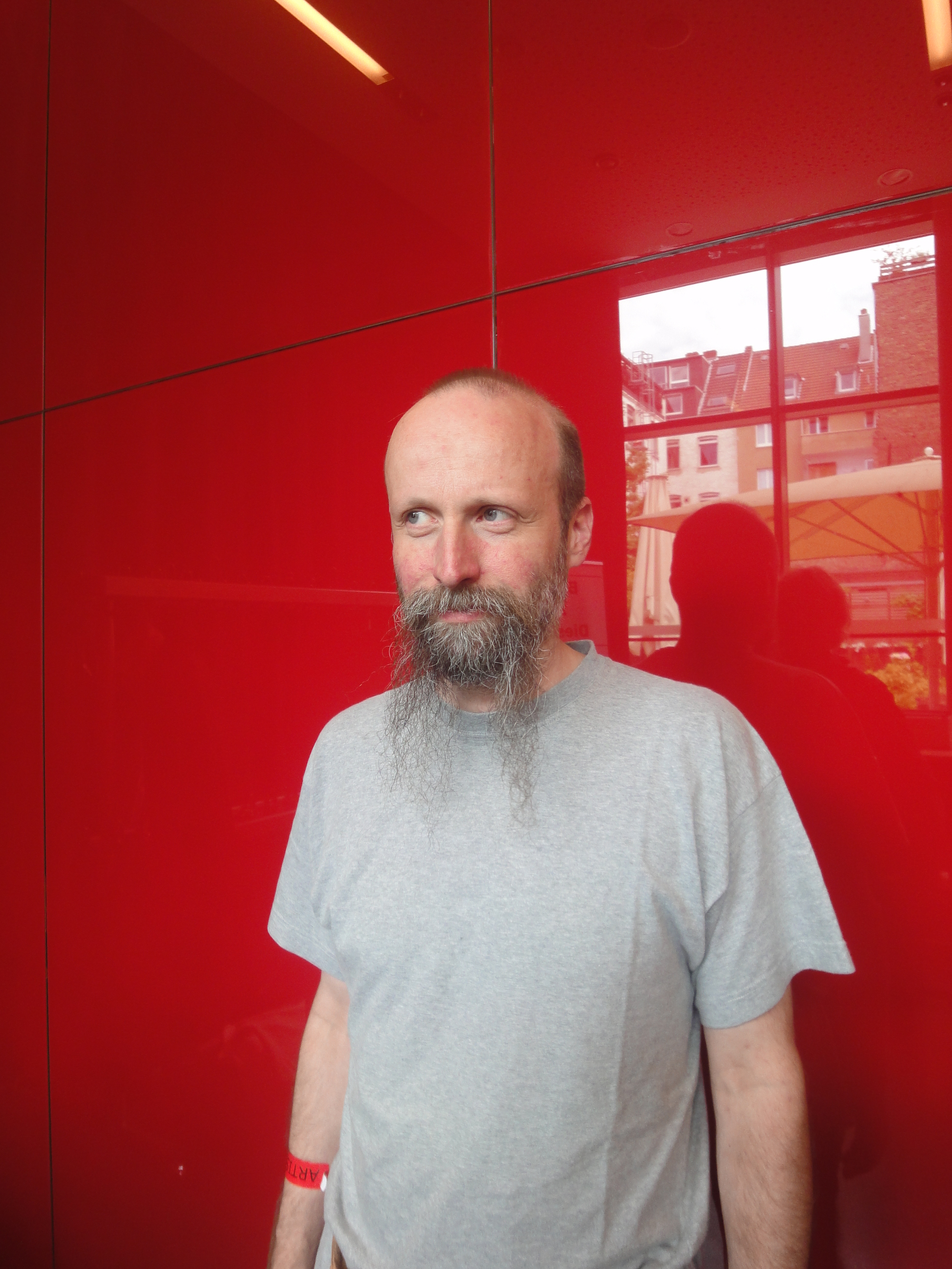 Gunnar Schedel, publisher and author from Germany.